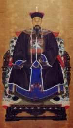 Jiang Xiuluan(姜秀鑾, 1783–1846) from Qing-Dynasty Taiwan